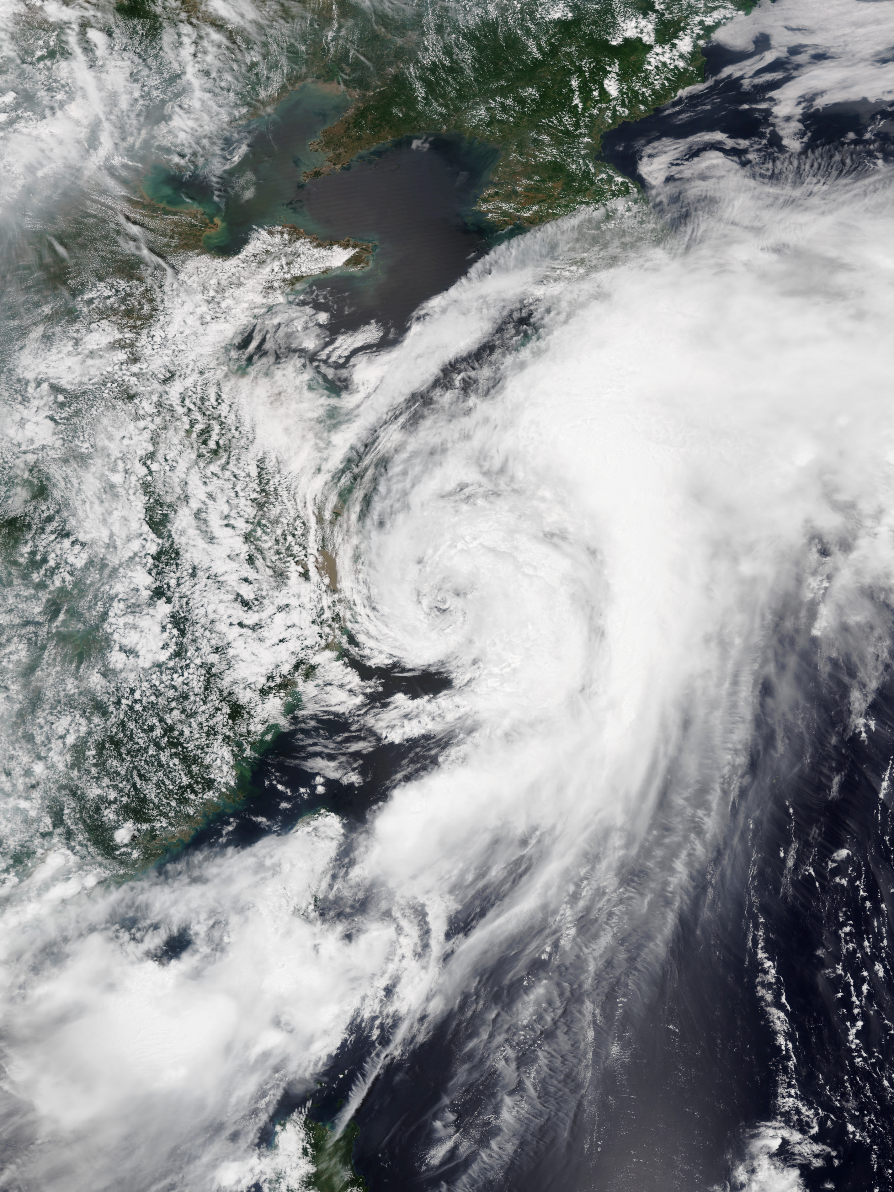 Tropical Storm Danas near peak intensity in the East China Sea on July 19, 2019